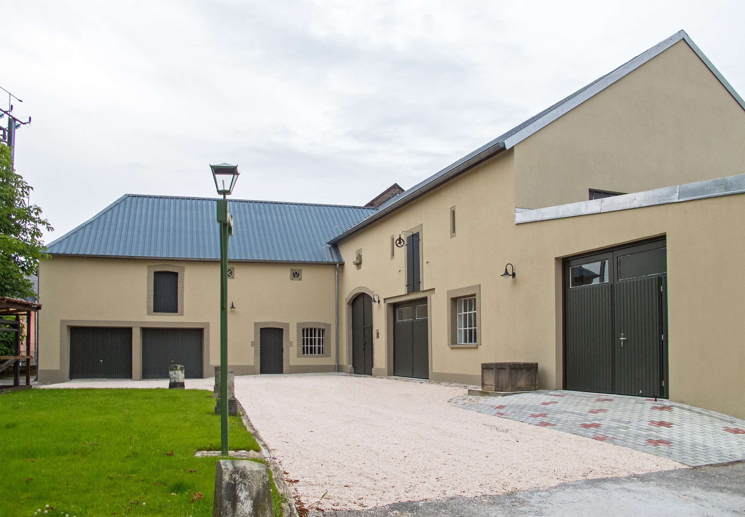 The buildings of the carriage museum in Peppange